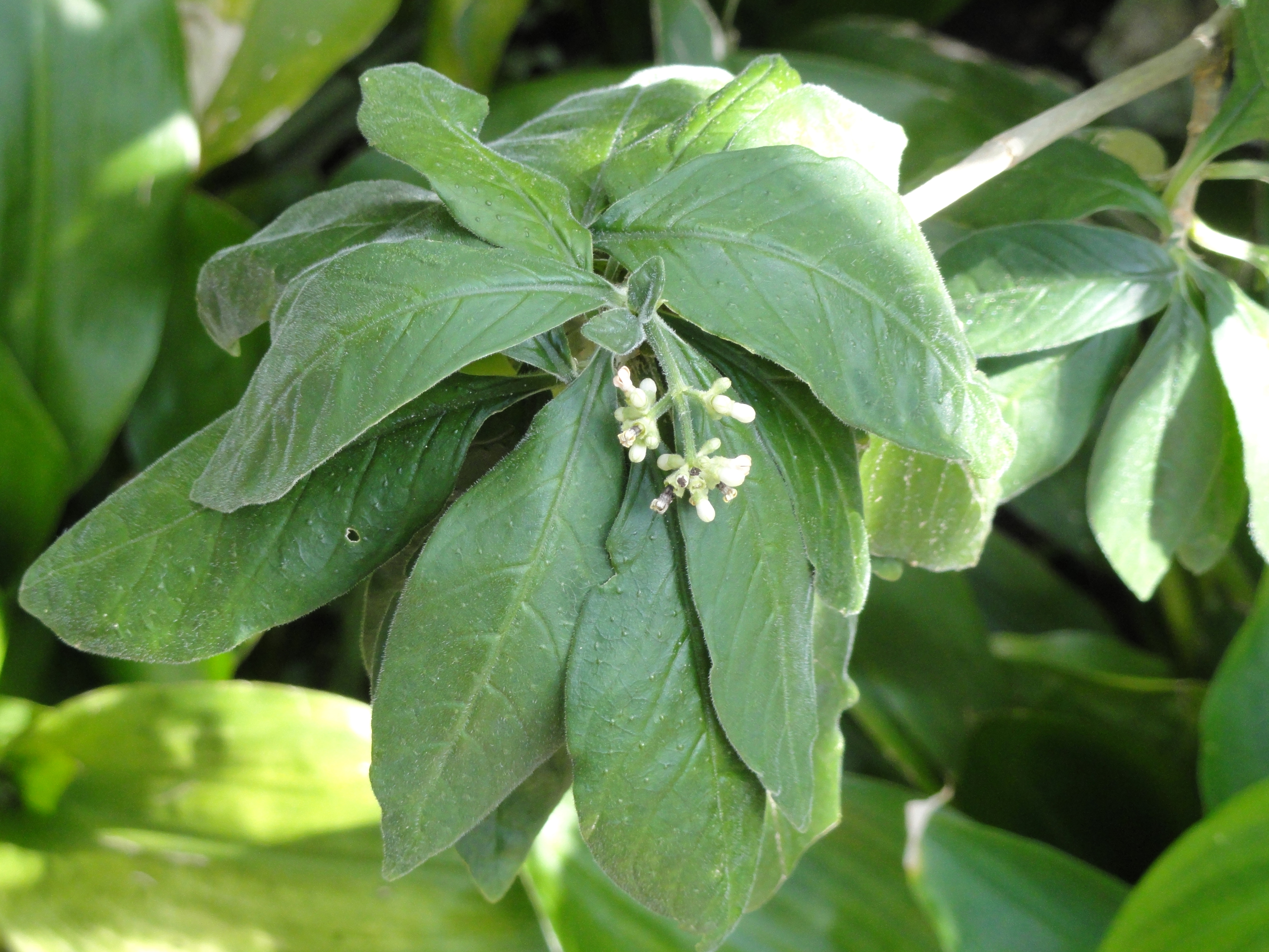 Psychotria kirkii specimen in the Denver Botanic Gardens, Denver, Colorado, USA.